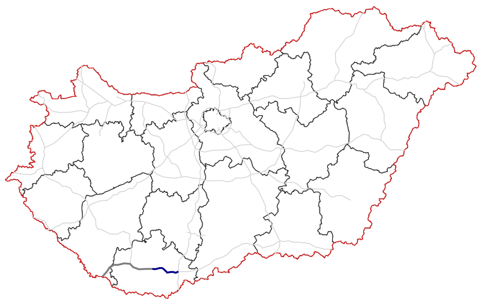 Traject the M60 Motorway, Hungary (Blue: in use, Light blue: under construction, Green: planned)